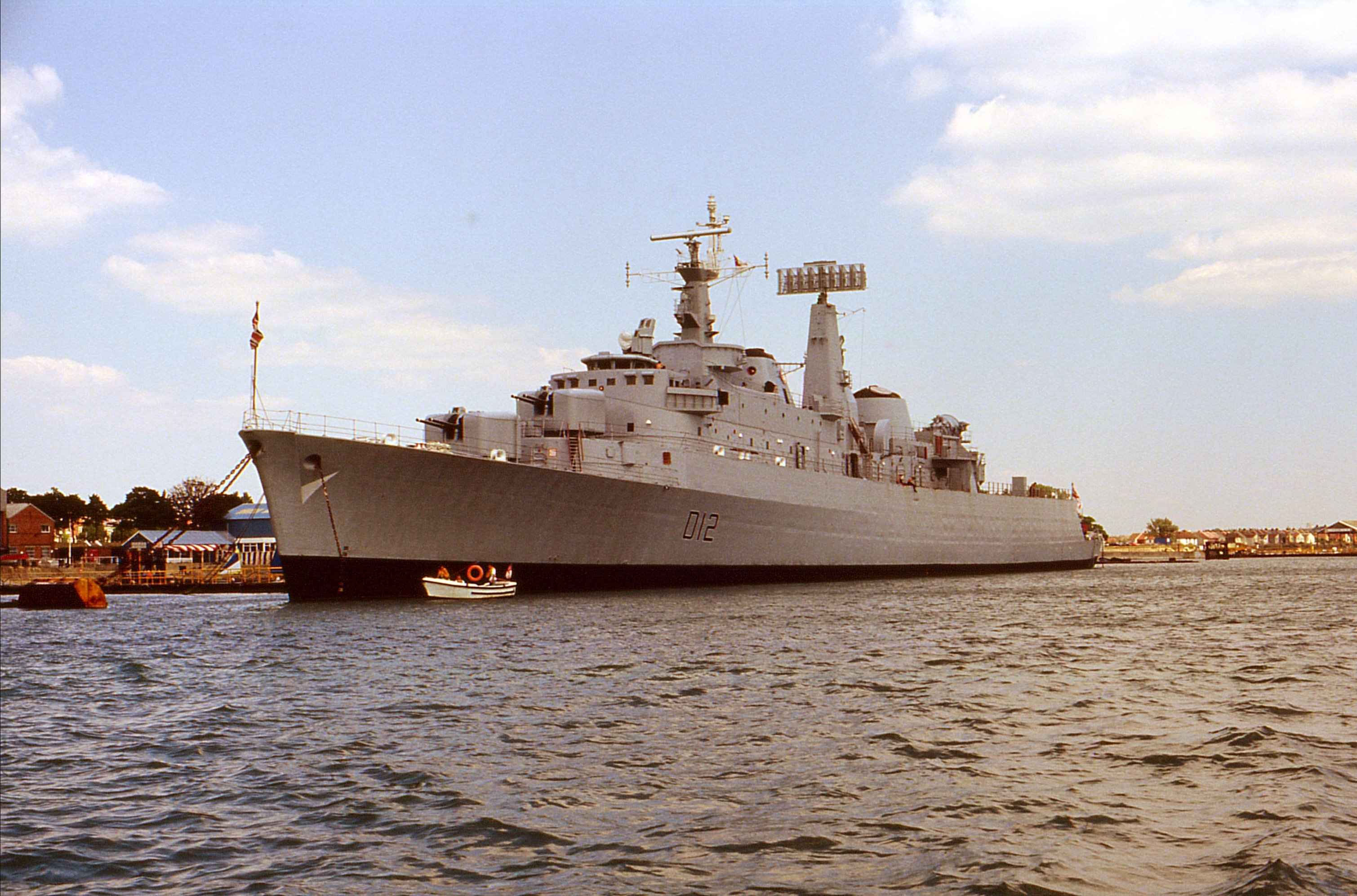 "Royal Navy 'County' Class Destroyer "HMS KENT" in the Portsmouth Navy Yards in July 1989. Name: HMS Kent Ordered: 6 February 1957 Builder: Harland & Wolff, Belfast Laid down: 1 March 1960 Launched: 27 September 1961 Commissioned: 15 August 1963 Decommissioned: 1980 Struck: 1993 Identification: Pennant number: D12 Fate: Sold for scrap in 1998 Class & type: County-class destroyer Beam: 53 ft (16 m) Propulsion: COSAG (Combined steam and gas) turbines, 2 shafts Aircraft carried: 1 × Lynx or Wessex helicopter Camera: Olympus AZ-4 Zoom 35mm SLR.